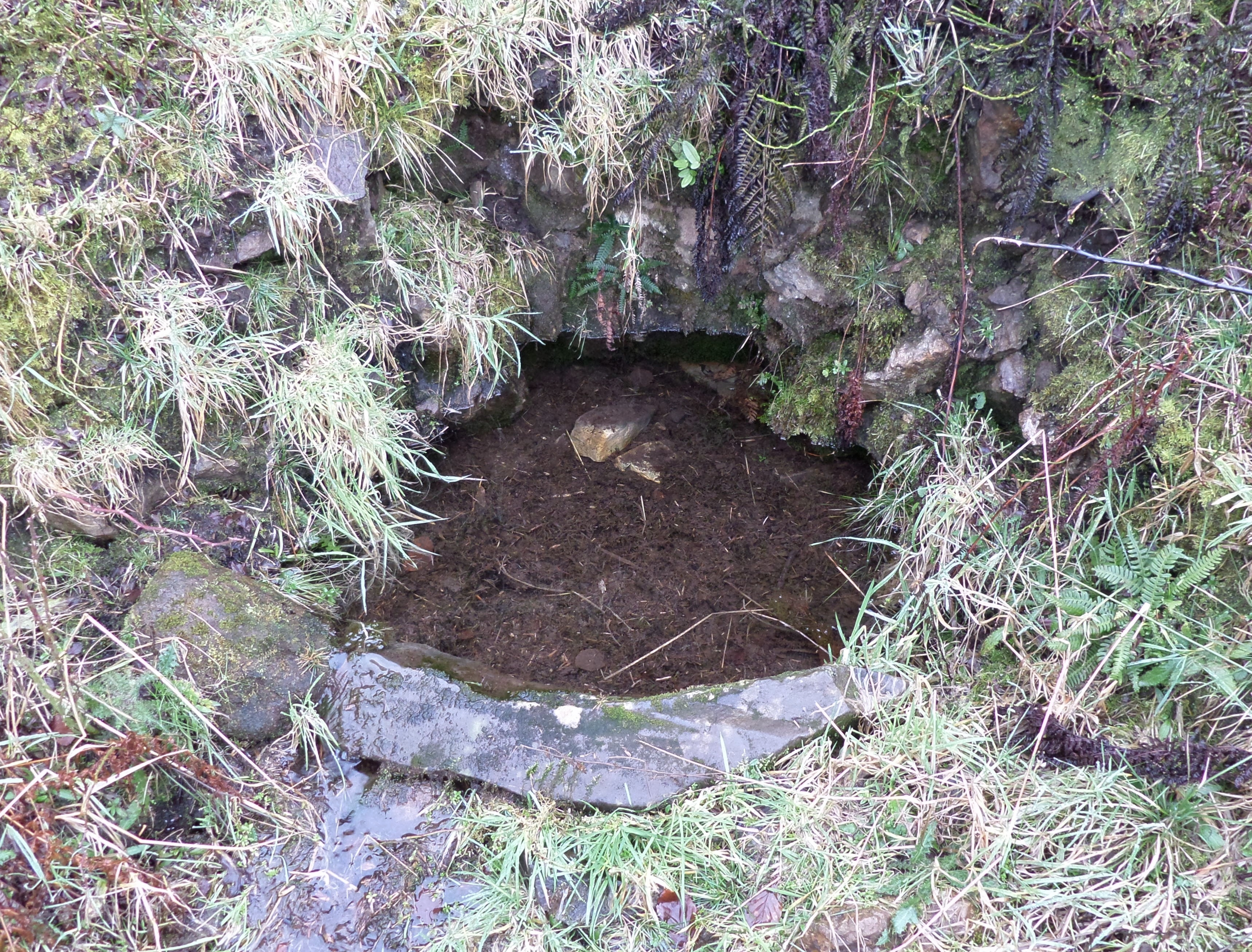 The Threepwood or Weaver's Well near Beith, North Ayrshire, Scotland.